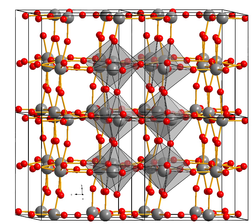 Crystal structure of tungsten(VI) oxide, data from: B.O. Loopstra, H.M.Rietveld: Futher refinement of the structure of WO3. In: Acta Cryst., 1969, B25, S. 1420-21.